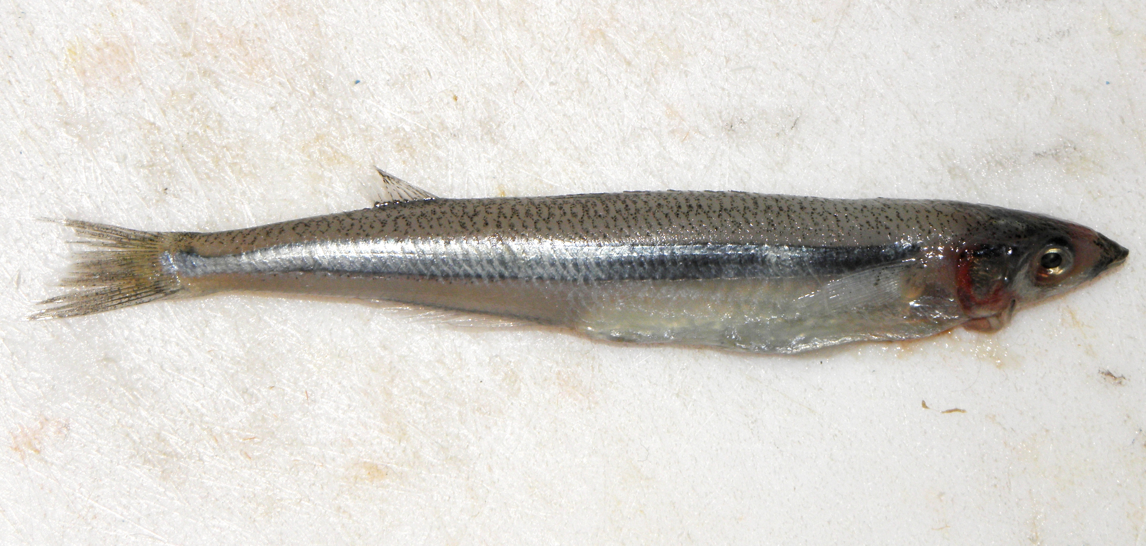 Silverside (Odontesthes incisa).